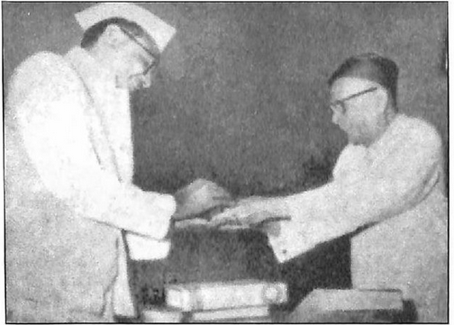 Jaybhikhkhu accepting Gold Medal